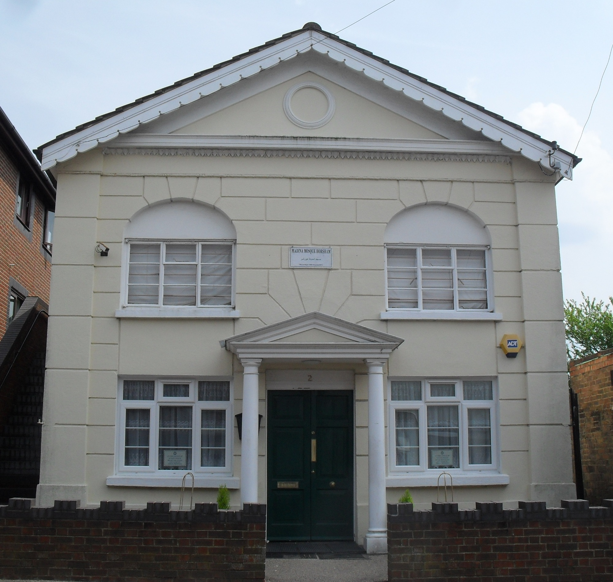 Madina Mosque, Park Terrace East, Horsham, West Sussex, England. Formerly the Jireh Independent Chapel, this mid 19th-century building became a mosque in 2007 after a period as a hairdressing salon.